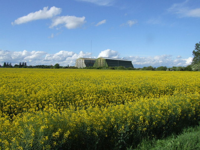 Looking back across a field of rape towards the airship hangars at Cardington